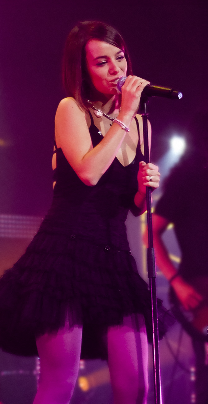 Alizée and her bassist at VIP W9 LIVE concert that was hold in Strasbourg, France, on 9th of January, 2008.